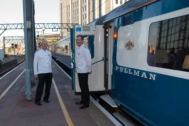 This is the Blue Pullman on Platform 3 of Fenchurch St Station. This was a celebration run to commemorate the 150th anniversary of the railway coming to Southend-on-Sea.